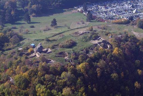 Hornstein, Austria, aerialphotography